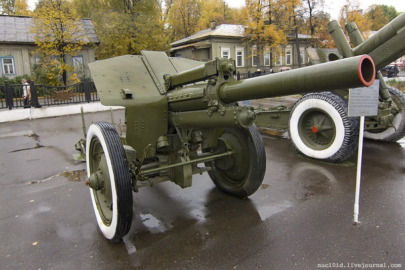 122 mm howitzer M1938 (M-30). Motovilikha Plants museum in Perm Russia.